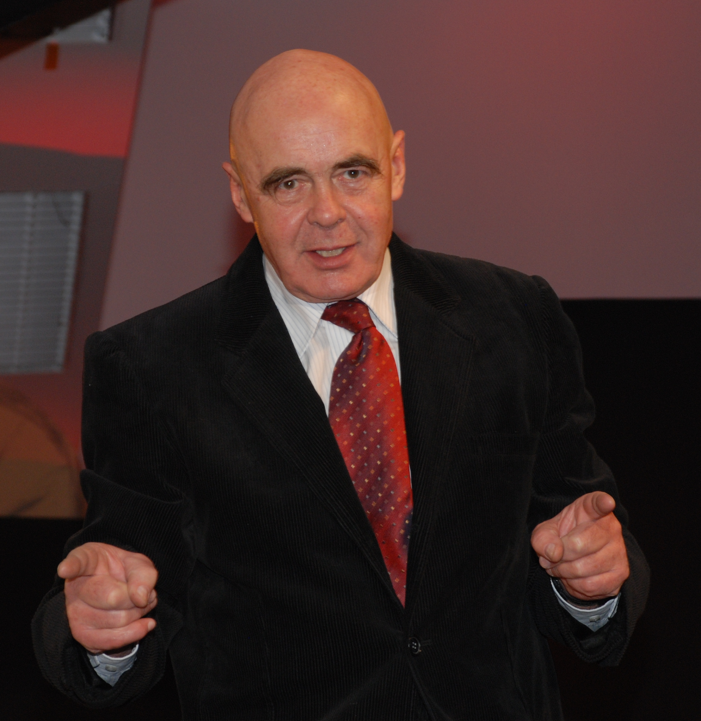 Stanisław Tym during his performance on the third day of the 2007 Festival of Cabaret in Zielona Góra.